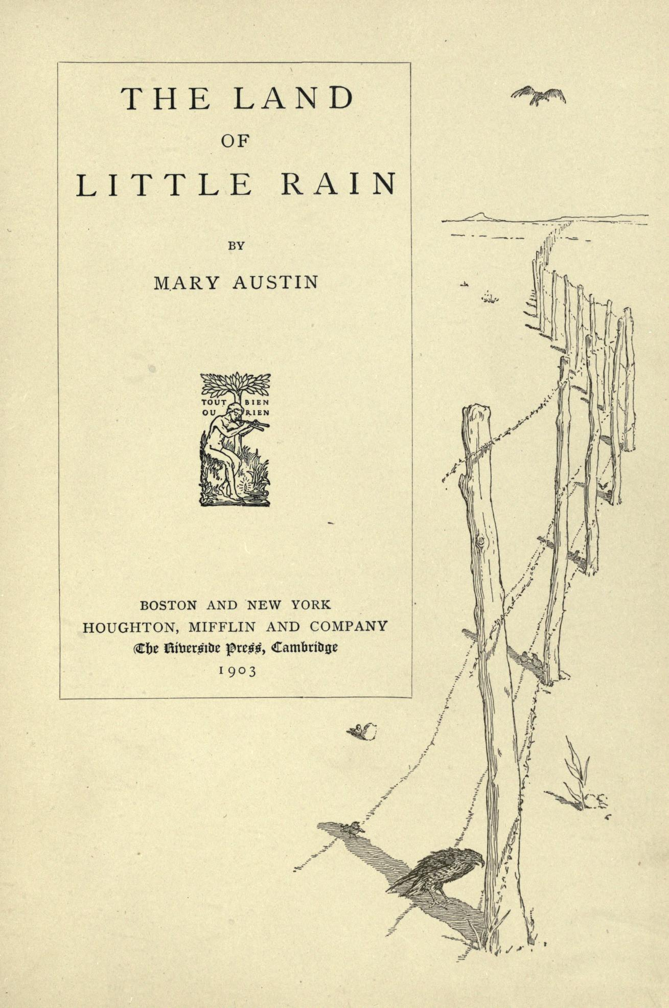 The Land of Little Rain title page, first edition 1903